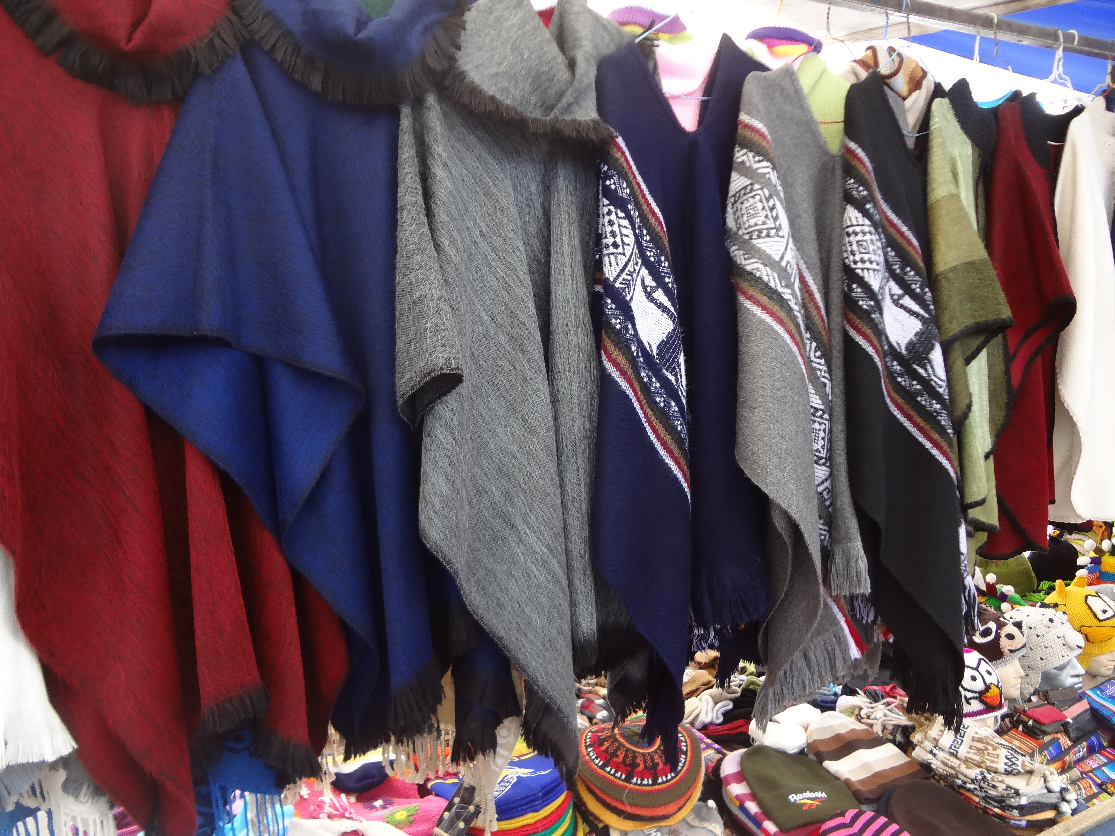 Traditional Alpaca clothing at the Otavalo Artisan Market - Andes Mountains - South America